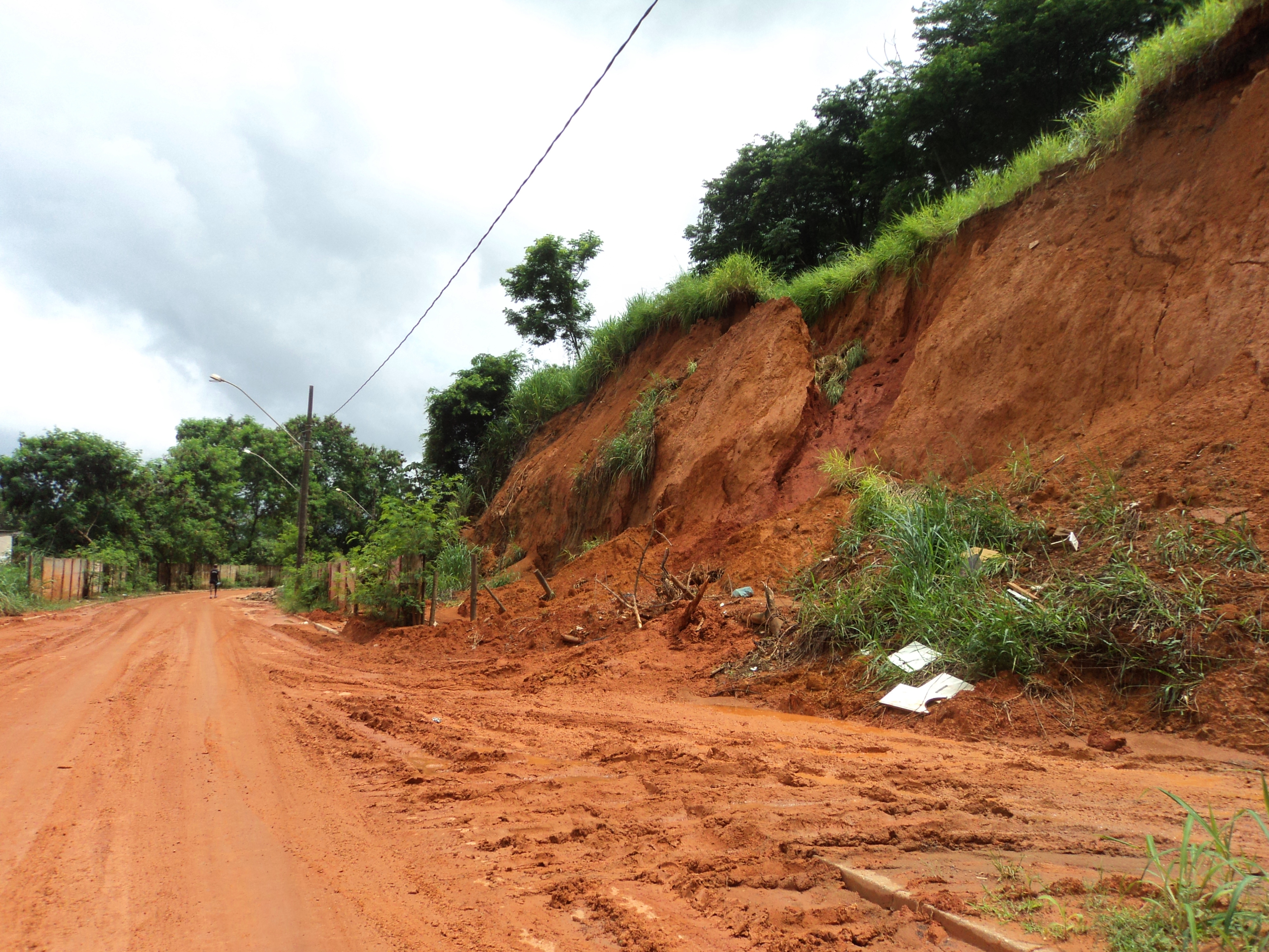 Landslide in the Júlia Kubitschek Neighborhood, in Coronel Fabriciano, Minas Gerais, Brazil.